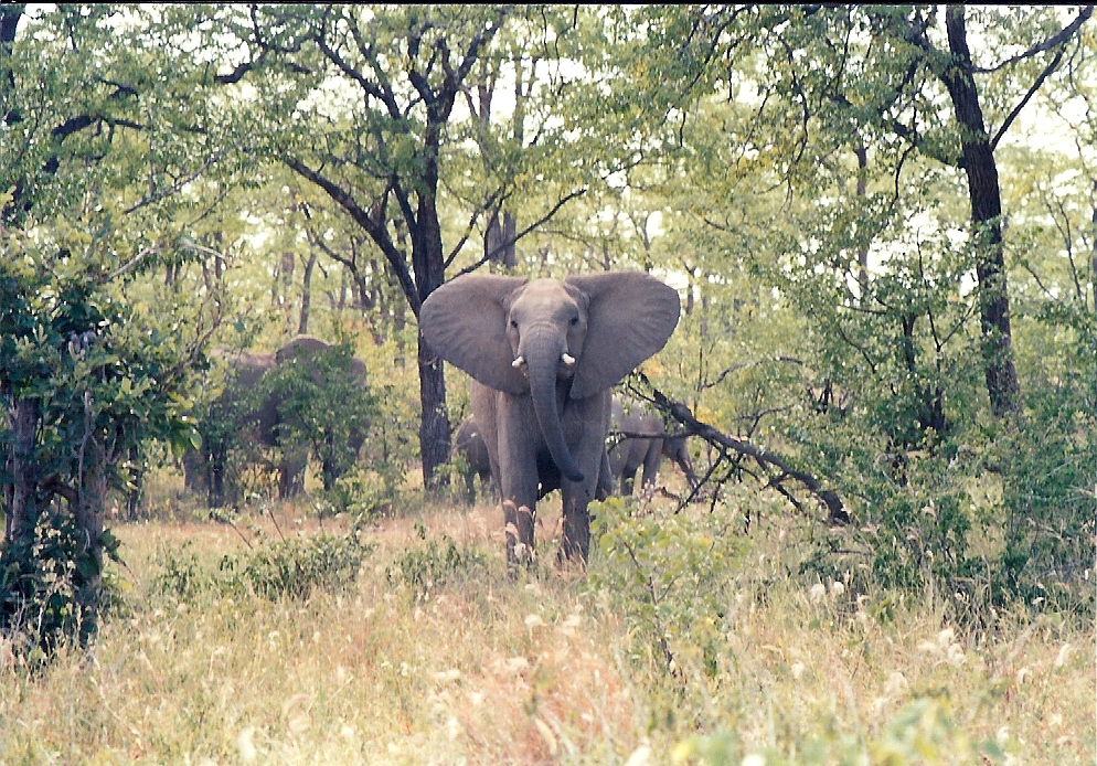 A young elephant, probably female, leaves the maternal herd to come check us out in Hwange National Park, Zimbabwe. Her behaviour was neither threatening nor threatened, just curious. Taken Dec 1999 on film.